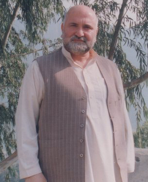 Abdul Haq picture...